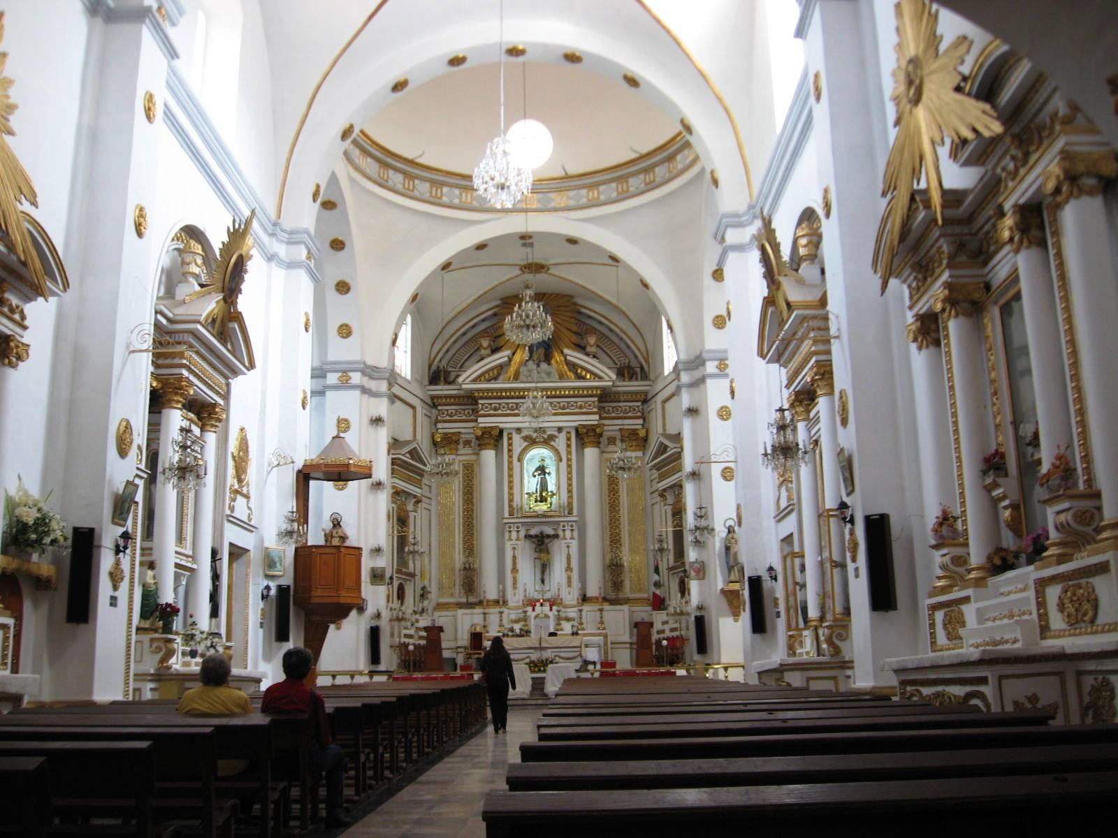 Inside the chapel of Ex Convent of San Francisco in Pachuca Mexico